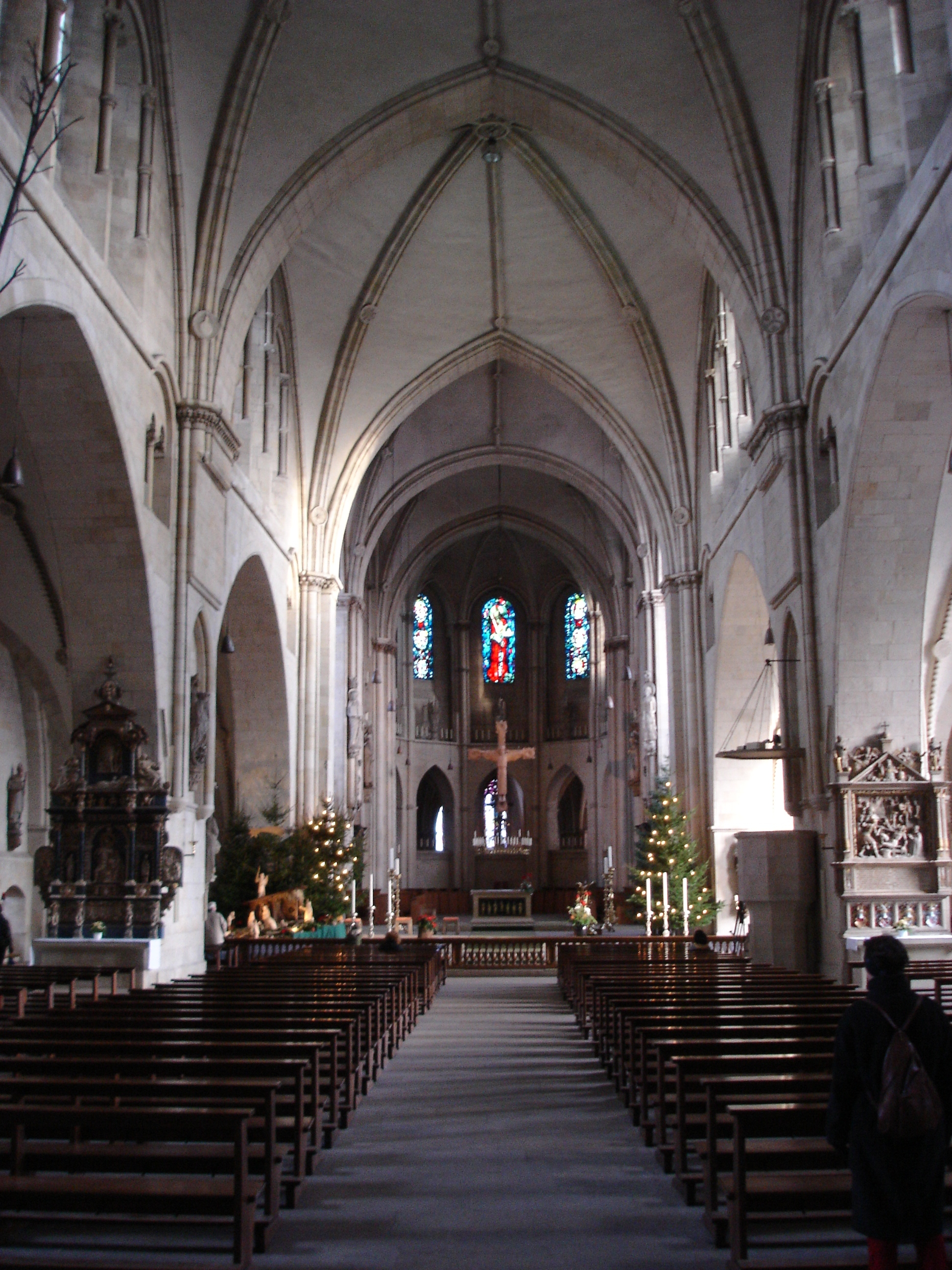 Main nave of the cathedral of Münster, Westphalia, Germany